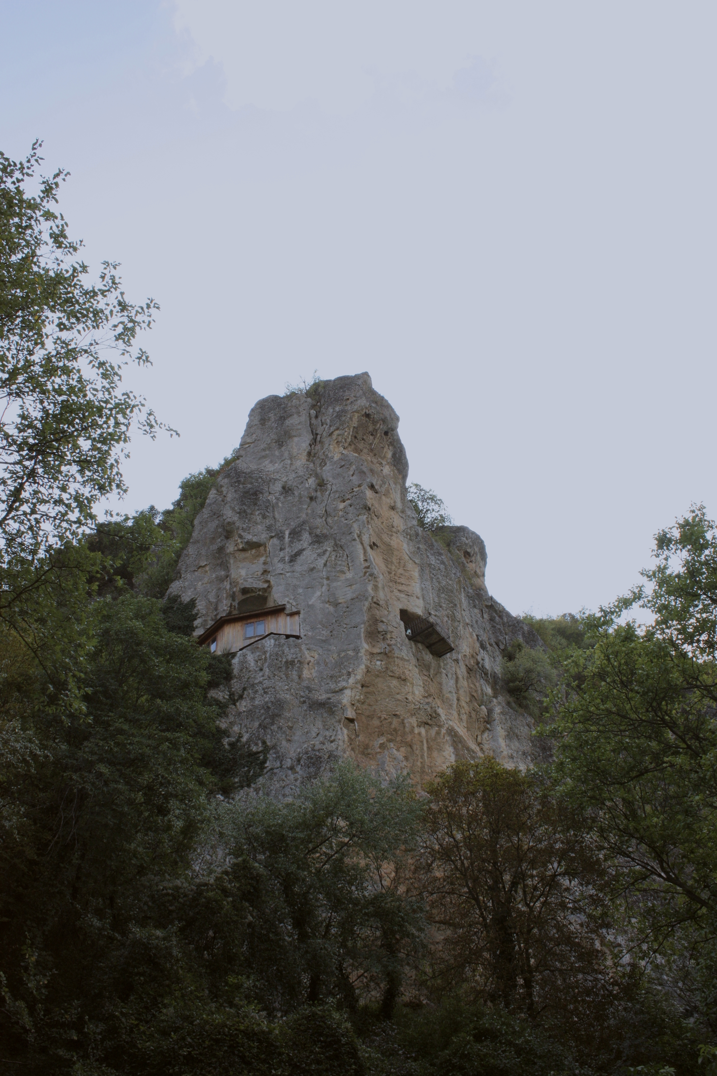 The Rock-hewn Churches of Ivanovo are a group of monolithic churches, chapels and monasteries hewn out of solid rock and completely different from other monastery complexes in Bulgaria, located near the village of Ivanovo, 20 km south of Rousse, on the high rocky banks of the Rusenski Lom, 32 m above the river. The complex is noted for its beautiful and well-preserved medieval frescoes.